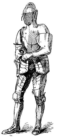 Jousting Armour